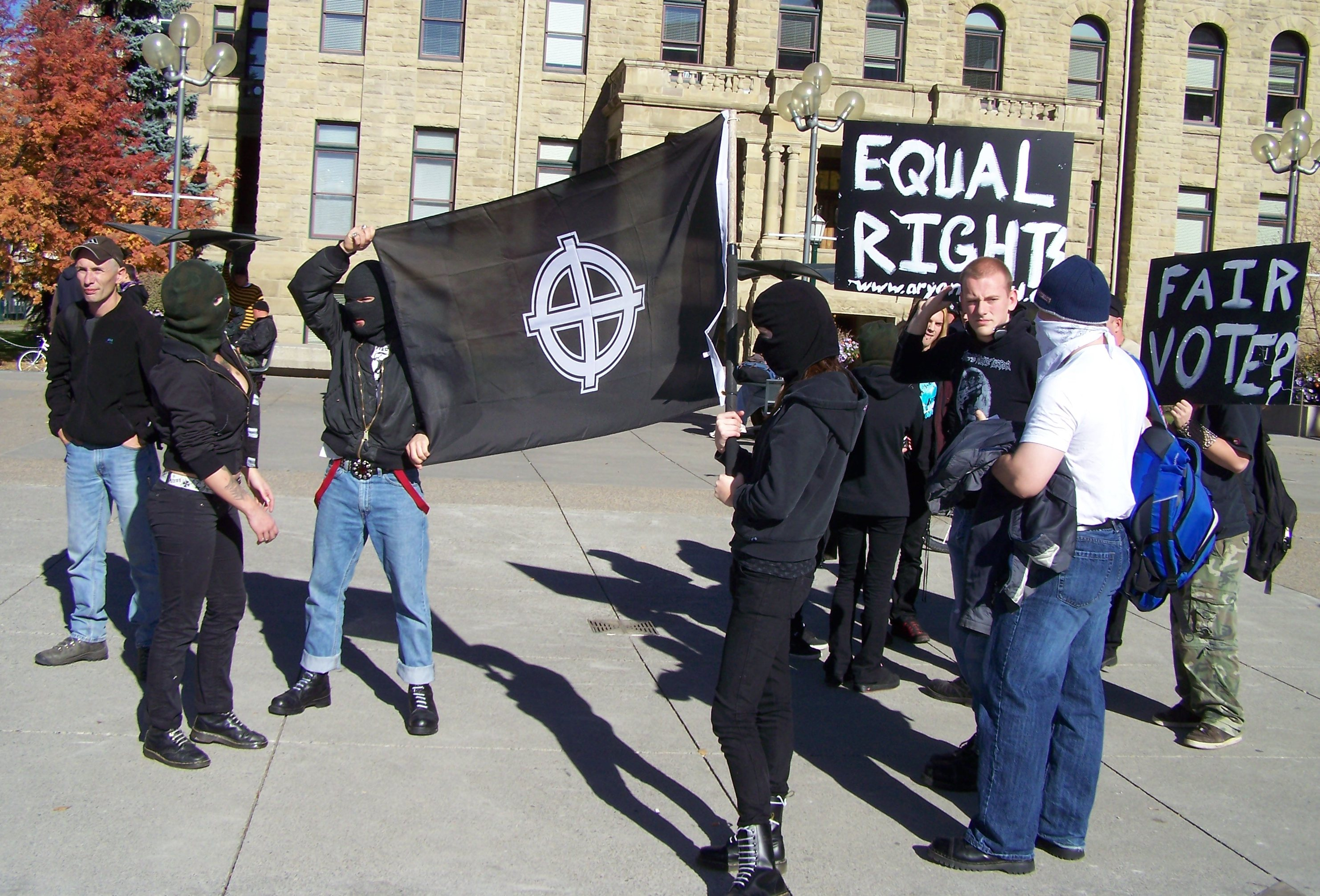 "These are members of the Aryan Guard and their supporters. This is one of the photos I took of a demonstration by a small group of Nazis (organized by the Aryan Guard) and a much larger group of anti-racists opposing the Nazis at Calgary's City Hall on Saturday, October 14, 2007."